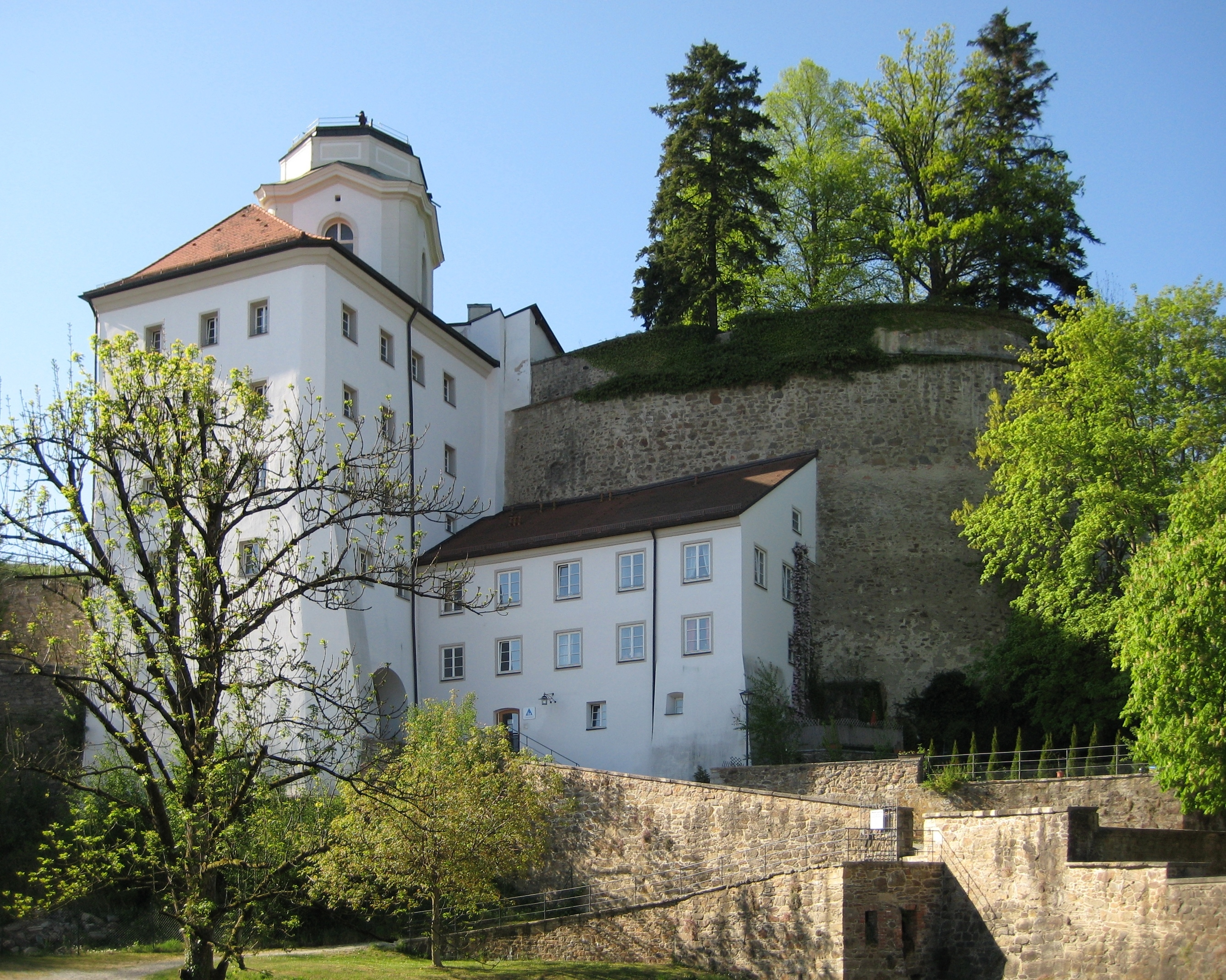 Veste Oberhaus in Passau